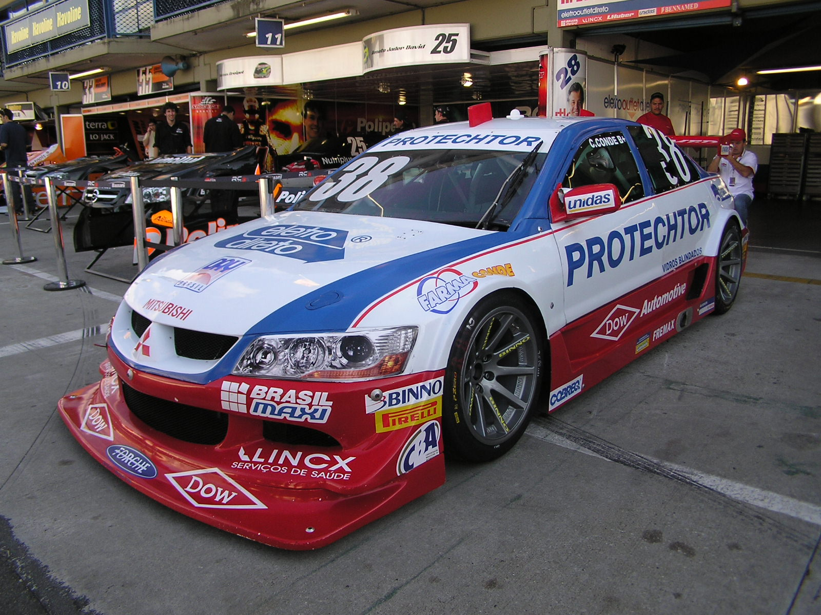 Stock Car Brasil: Mitsubishi Lancer #38 Team NASCAR, the car of Christian Conde